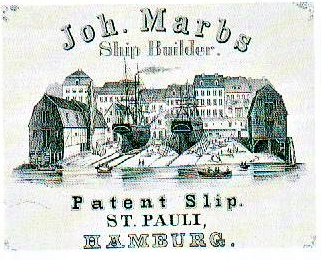 Dock Hamburg